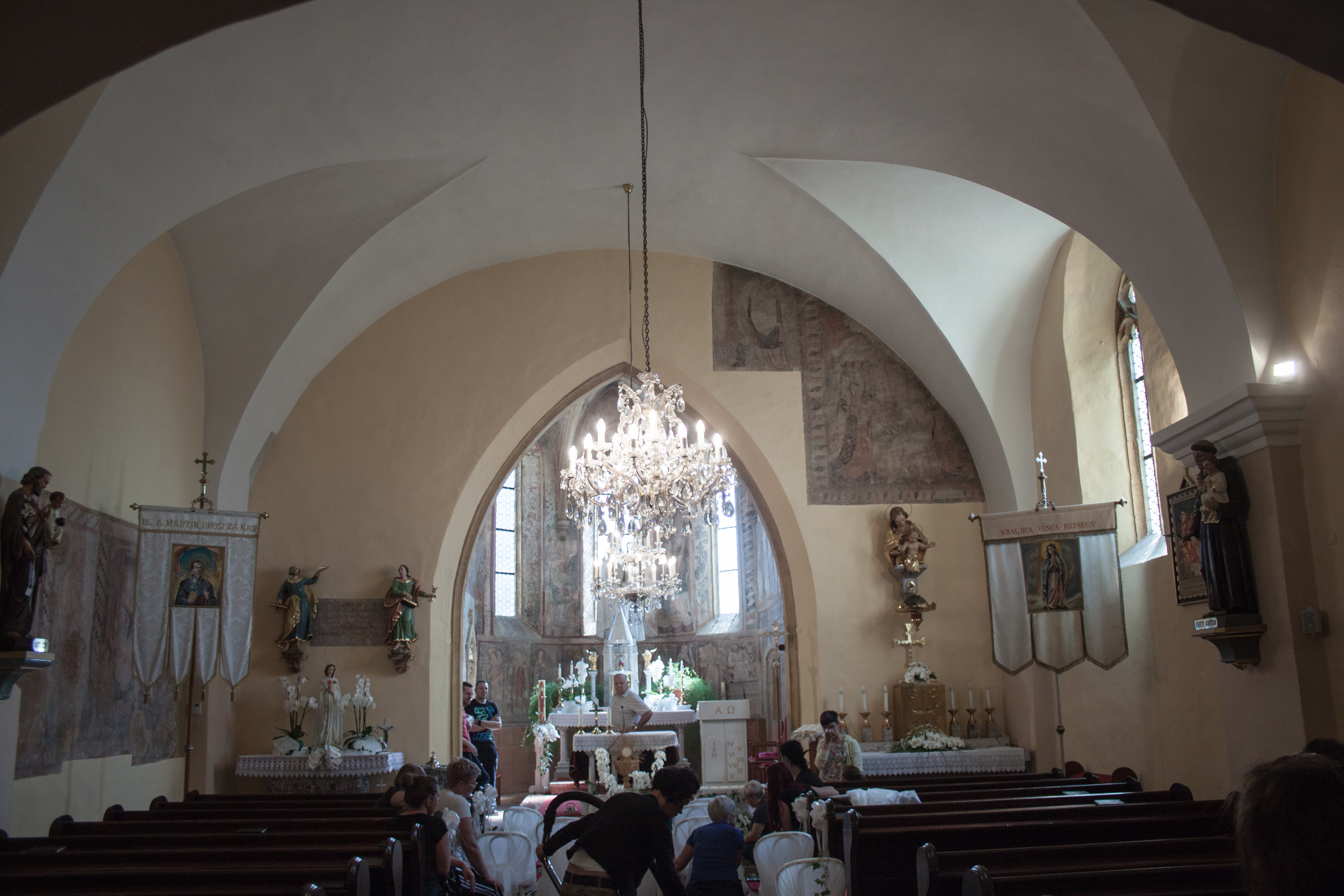 Interior of the St. Martin's Parish Church (Martjanci)